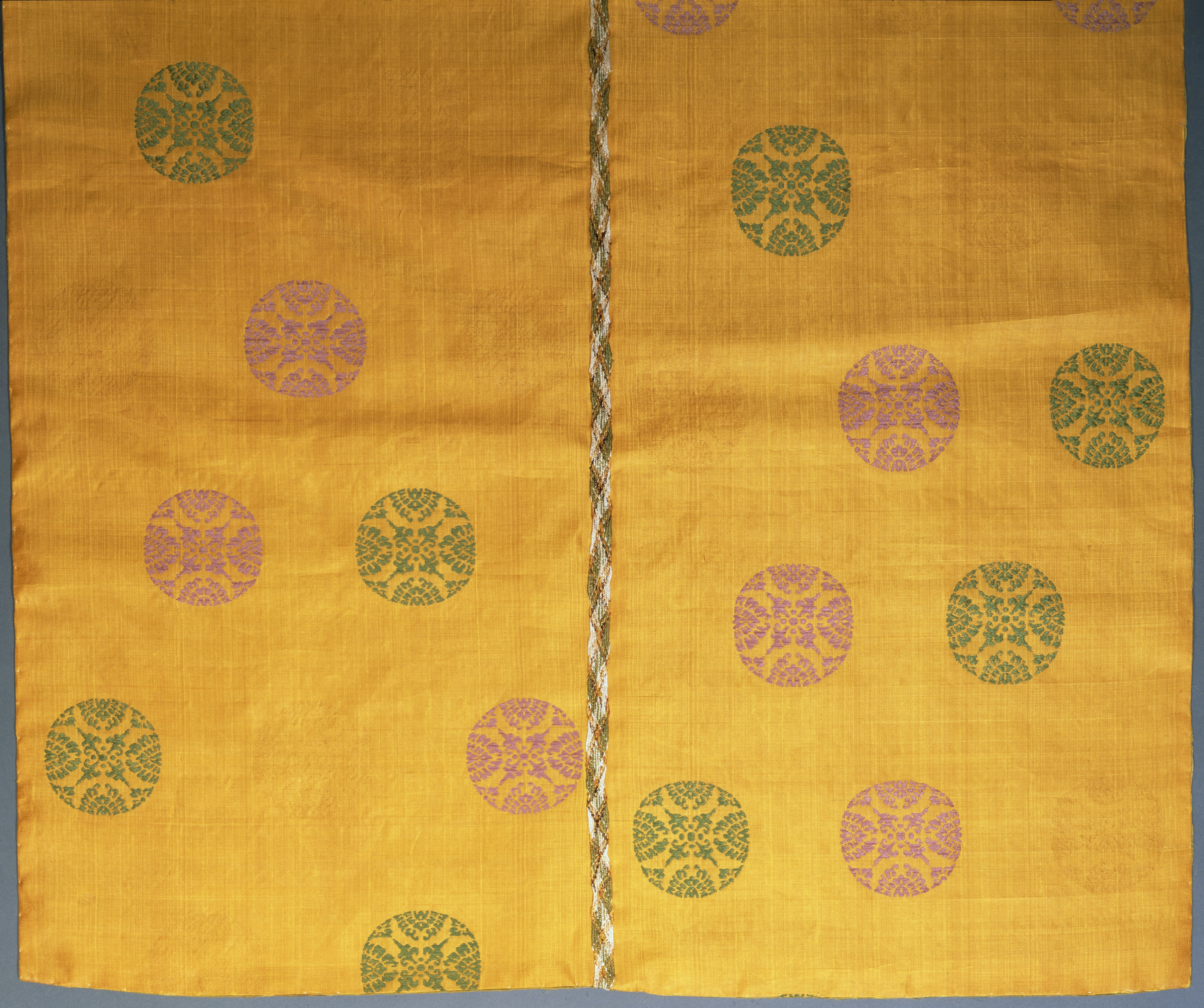 Coverlet with Fusenryo Roundels in Karaori on Yellow Ground. Part of the Sacred Treasures of Asuka Shrine (阿須賀神社伝来 古神宝類 asuka jinja denrai gojinpōrui), offers presented by worshippers to the Asuka Shrine (阿須賀神社 asuka jinja?) such as robes, a headdress, boxes, fans, shoes, a clothes rack, a toiletry case and mirrors. Located at the Kyoto National Museum, Kyoto and designated as National Treasure of Japan.